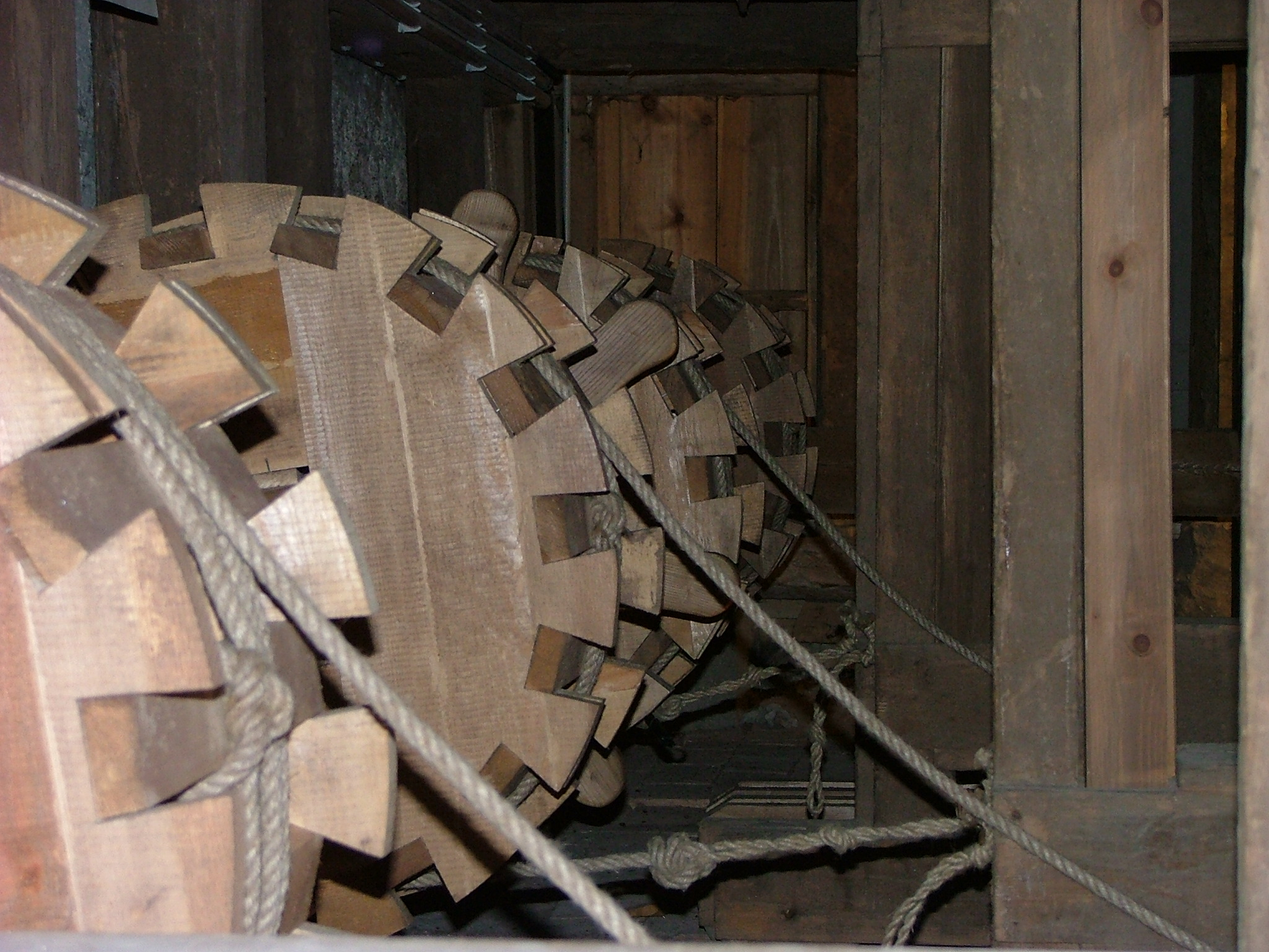 wooden wave under the stage